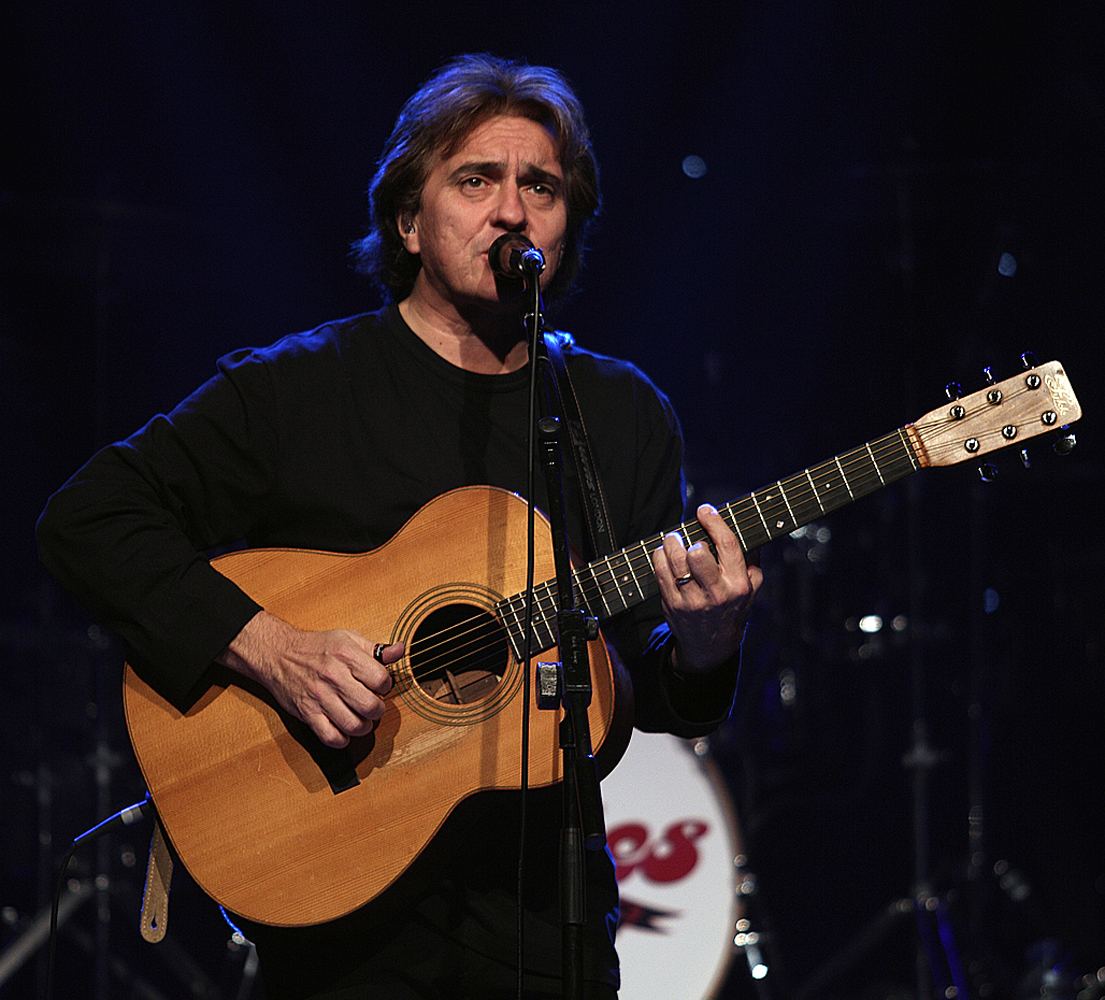 Peter Howarth performing Bruce Springsteen's Sandy